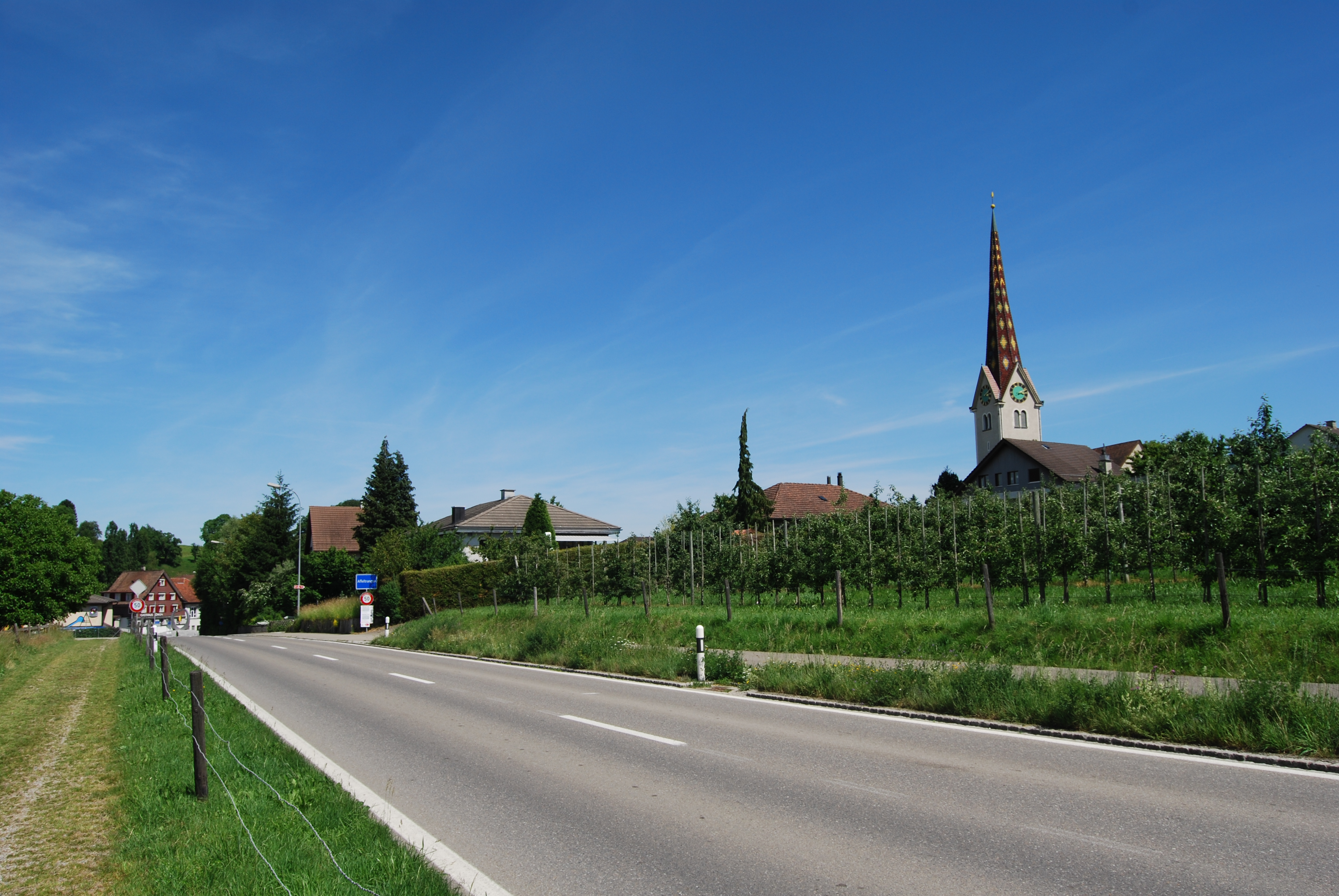 Affeltrangen, canton of Thurgovia, Switzerland